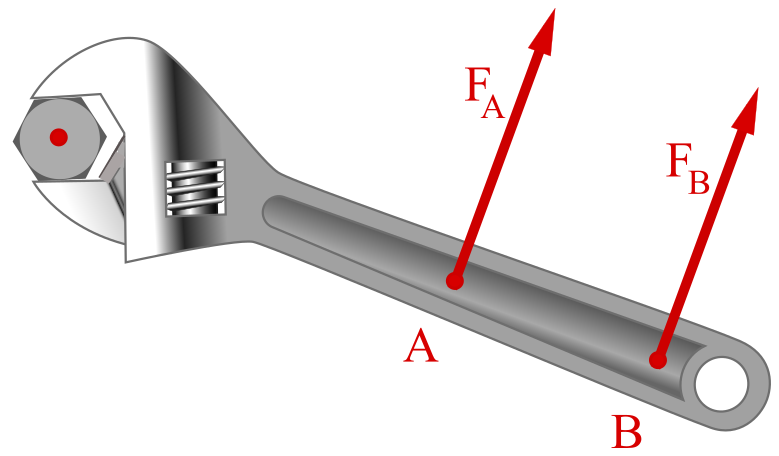 Adjustable wrench